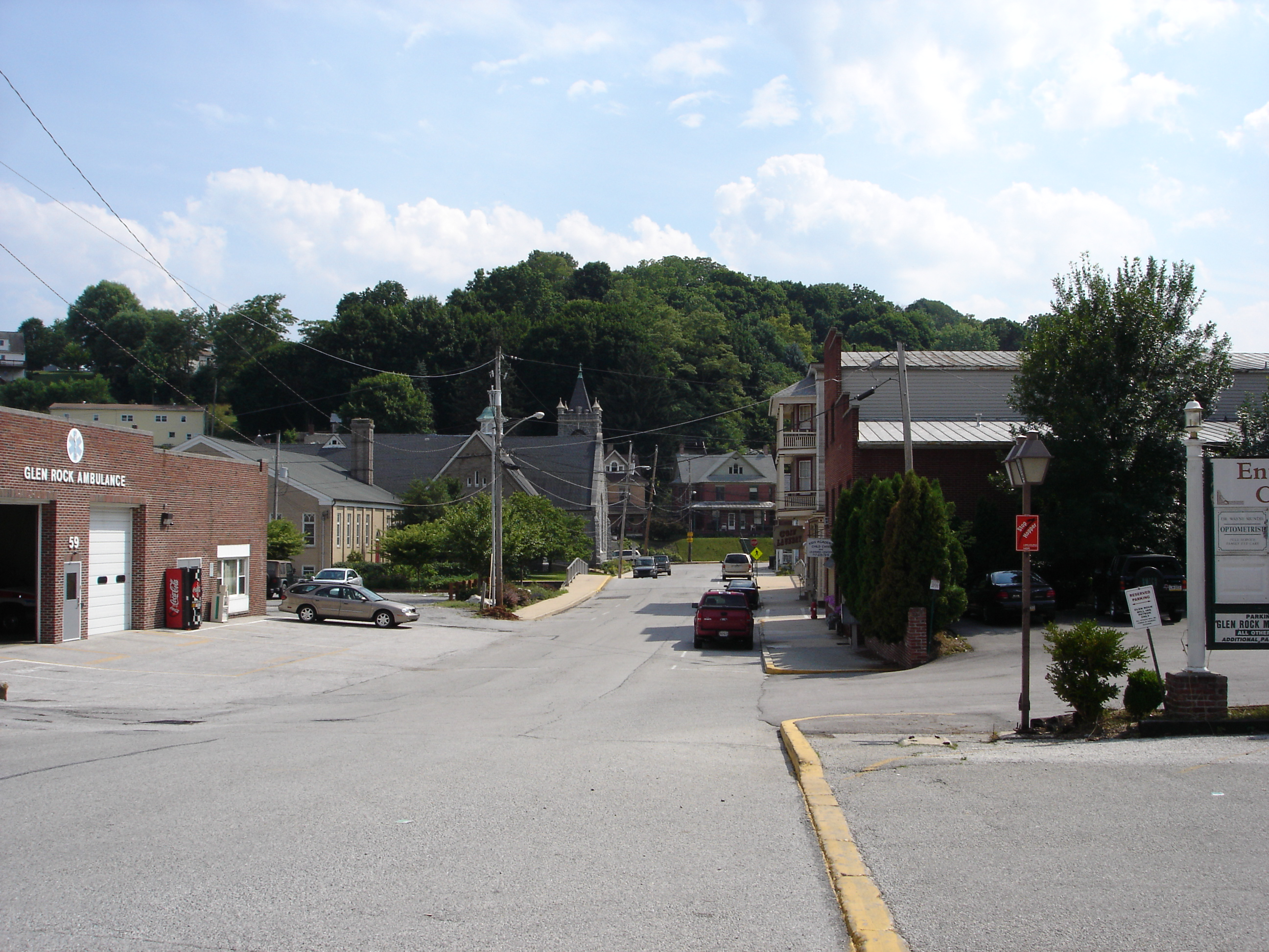 Glen Rock, Pennsylvania as viewed from York County Heritage Rail Trail park.